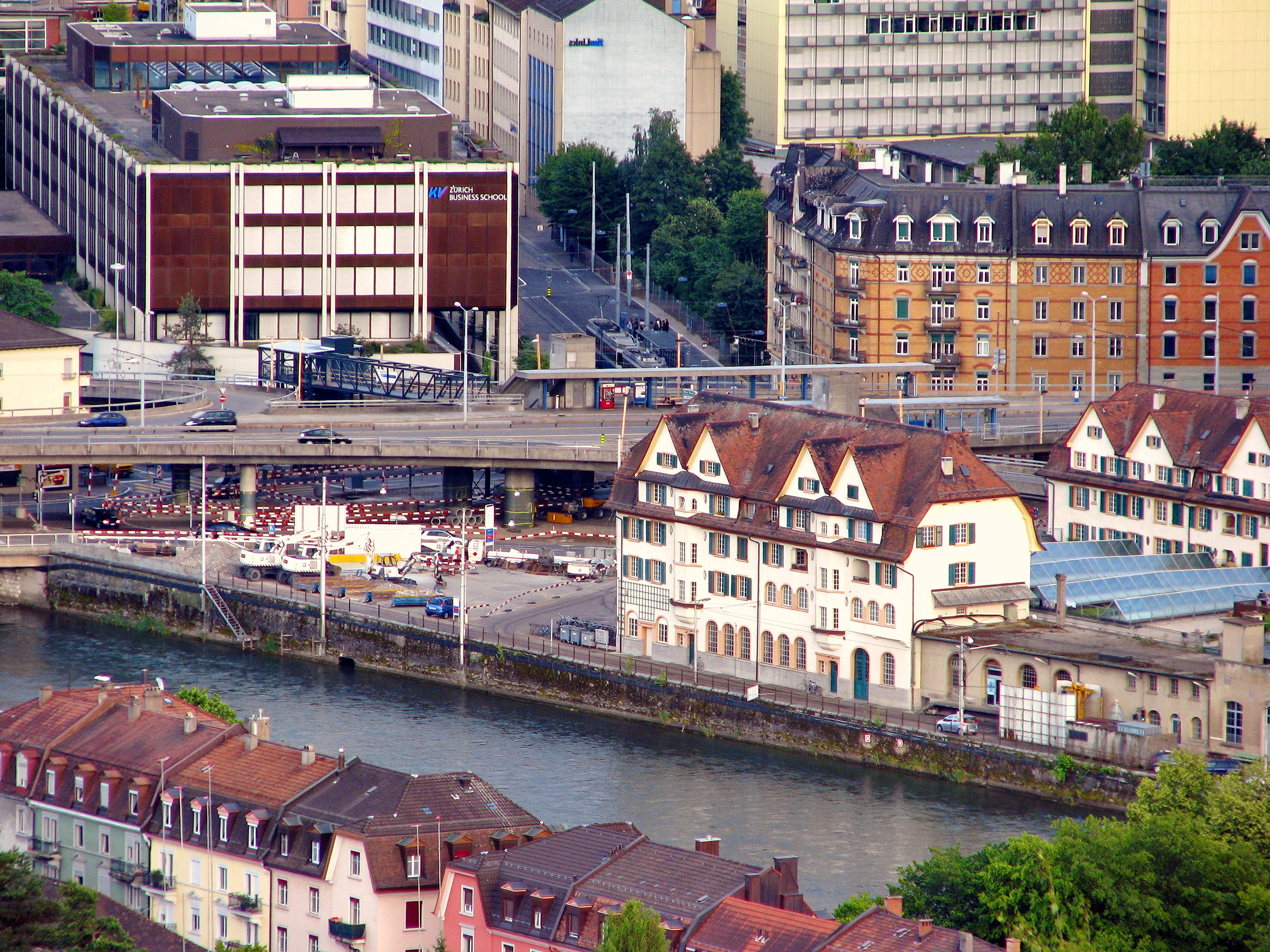 Zürich : Escher-Wyss square in Escher Wyss quarter with KV Business school, as seen from Käferberg-Waidberg.